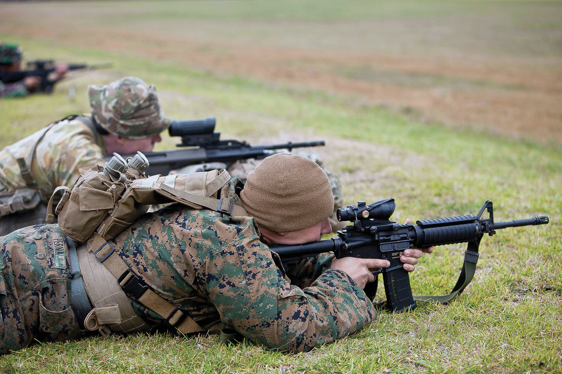 Sgt. Davide Perna, marksman with the III Marine Expeditionary Force combat shooting detachment, competes with an Australian soldier during the first day of the Australian Army Skill at Arms Meeting in Puckapunyal, Australia, May 7.